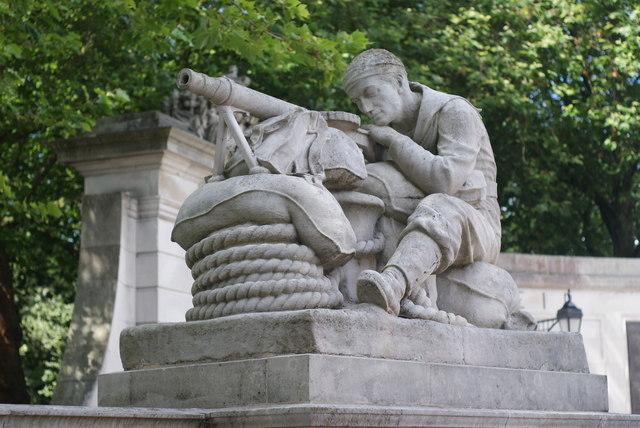 War Memorial, Portsmouth, Hampshire I must have walked past this memorial many times during my brief period as a student in 1973/4, but either did not notice it, or, more likely, did not realise the significance. This memorial is on a plinth to the left of the main memorial, and depicts a soldier firing a Lewis machine gun. My grandfather was a Lewis Gunner during WW1. During training late in 1914, soldiers were tested to see whether they had the aptitude to be a machine gunner. Guns had to be fired whilst moving the point of aim horizontally, vertically, and diagonally. My grandfather was good throughout, was trained, and in France from early 1915 until invalided out late in 1917. Each infantry battalion had 4 Lewis Gunners, but to increase firepower to 8, Lewis Gunners were "borrowed" from other battalions. As a result, the Lewis Gunners spent double the amount of days in the front line.